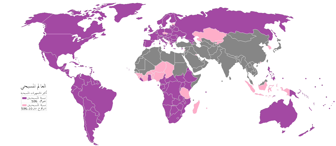 Map of The Christian World, with the largest Christian populations. Made from File:Muslim world map.png